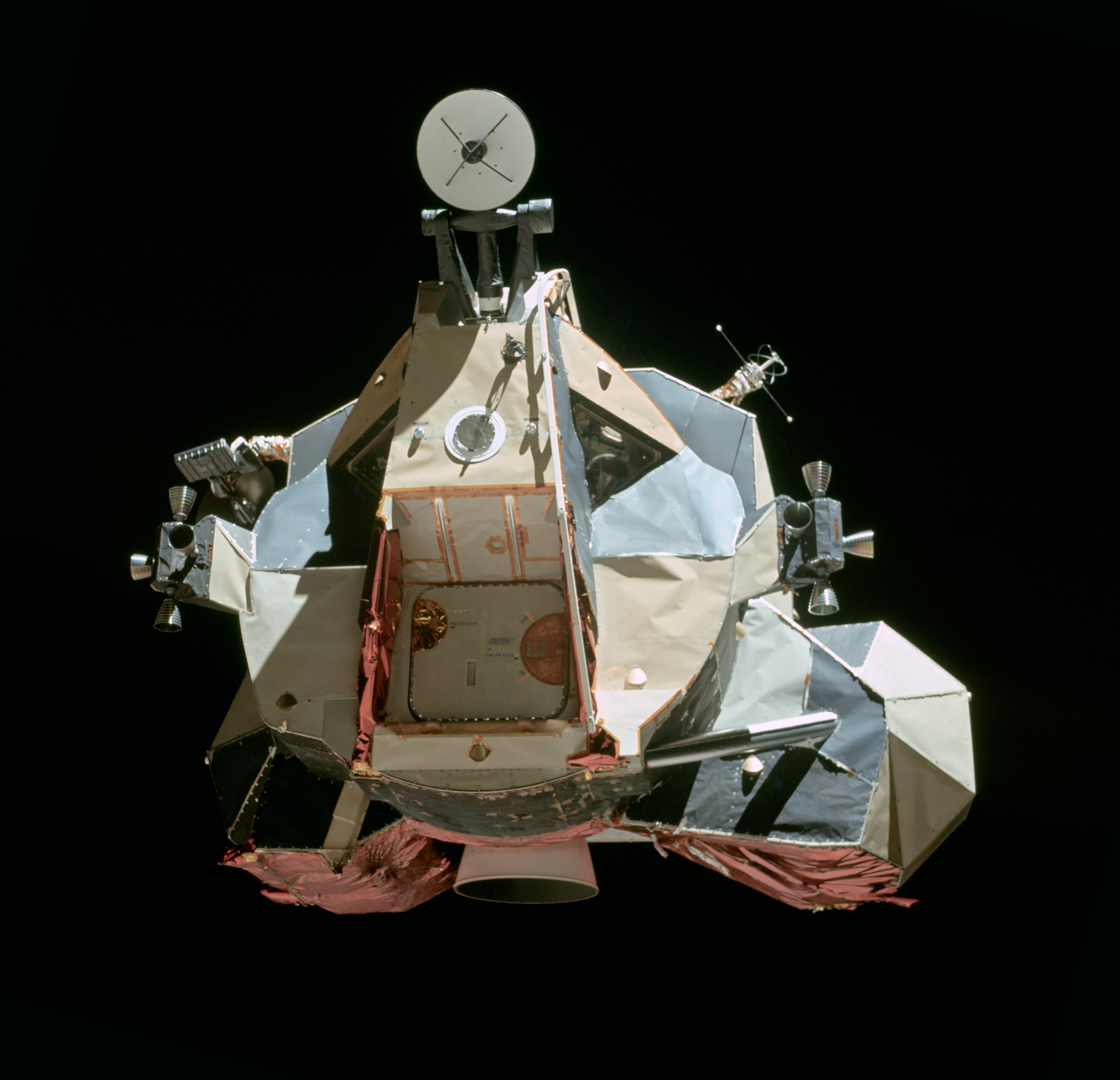 The ascent stage of Apollo 17's Lunar Module Challenger rendezvous with Command Module America for the journey to Earth after 3 days on the Moon.